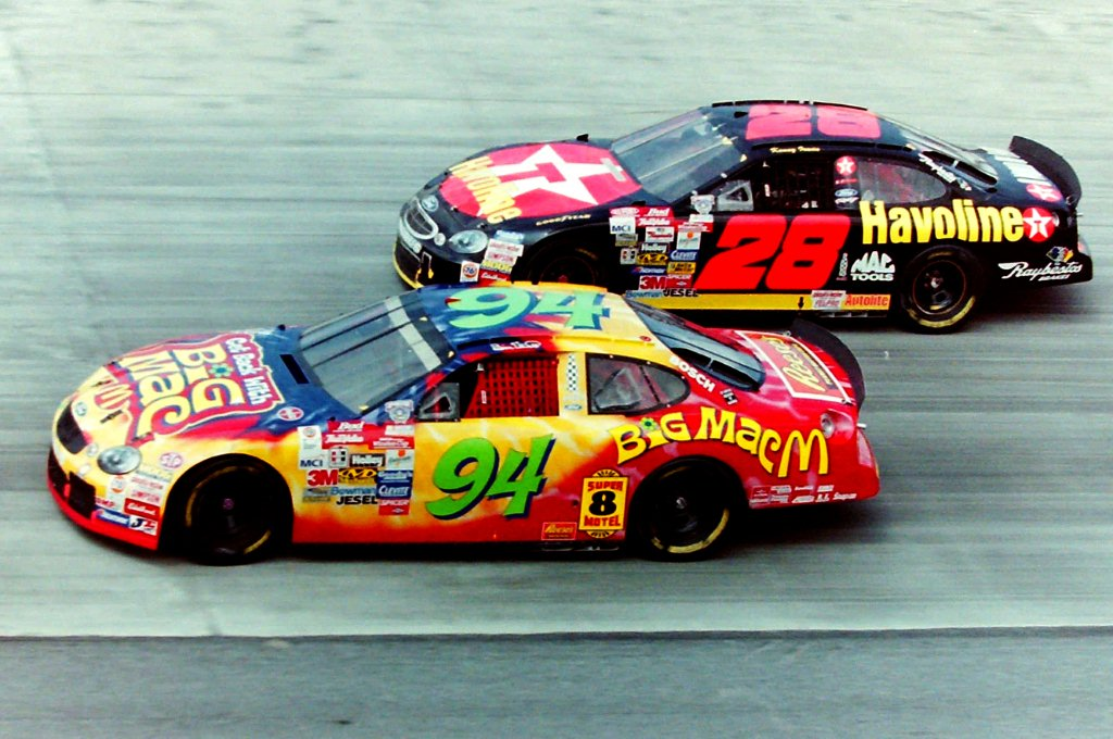 Matt Kenseth, substituting for Bill Elliott in the No. 94 Ford, races with Kenny Irwin, Jr. at Dover Downs International Speedway in the MBNA Gold 400, September 20, 1998. Kenseth, making his Winston Cup Series debut, would finish 6th.